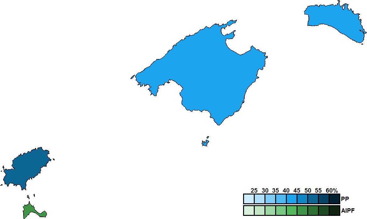 District results for the 1995 Balearic regional election.